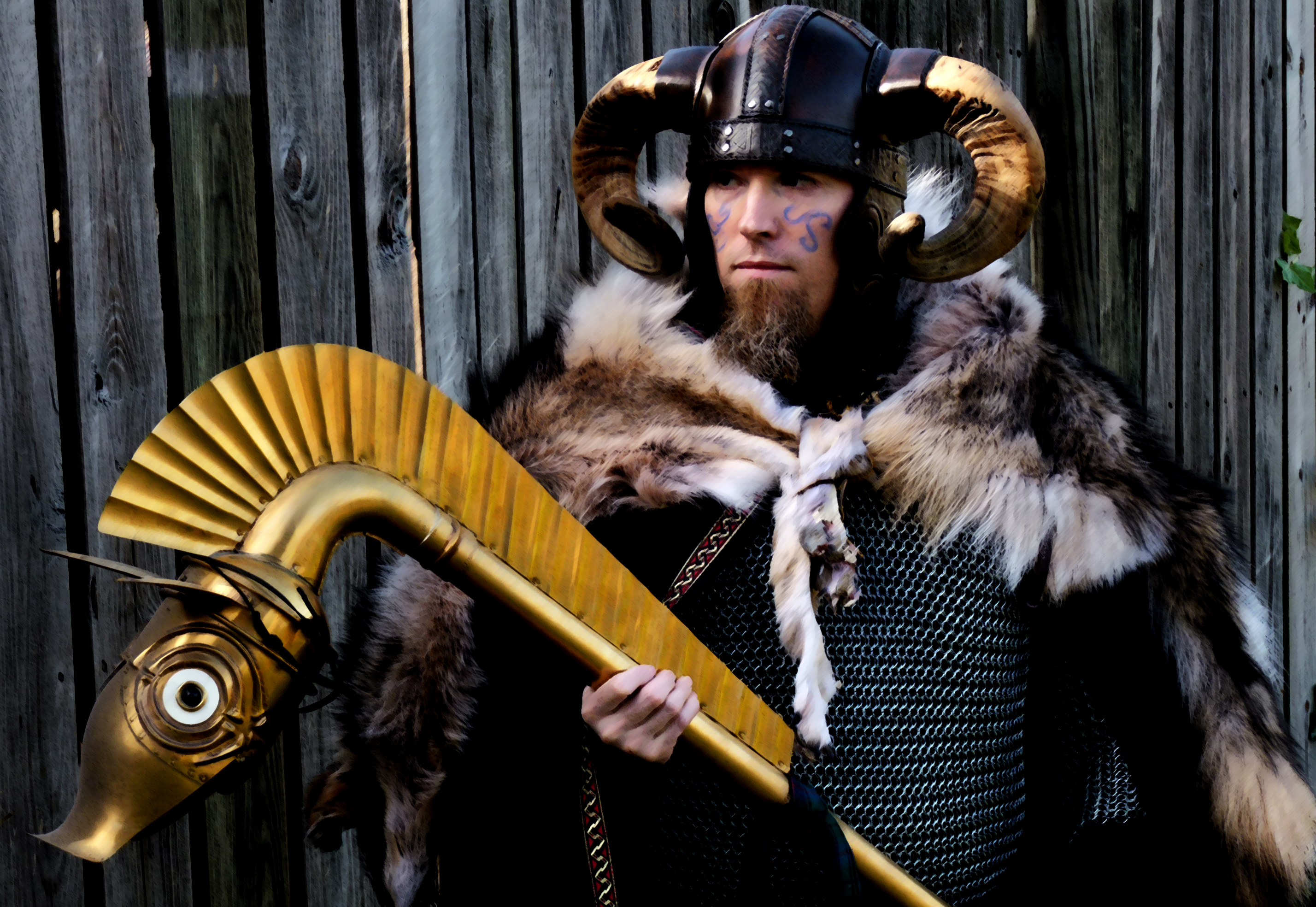 A modern reenactor portraying an Ancient Celt (Vacomagi tribe, a.k.a Caledonian/Pict/Briton) with carnyx trumpet, crested helmet, chain mail (chainmaille), and woad circa 100-300 AD. The carnyx was used for war (signaling and intimidation), and ritual occasions as depicted on the Gundestrup cauldron. The costume, helmet and appearance were inspired by contemporary depictions and written accounts.